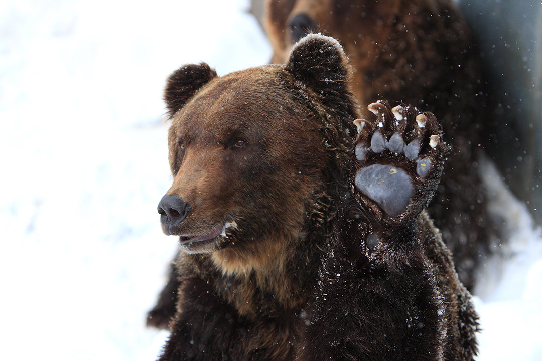 Ezo Brown Bear. Showa shinzan kumabokujo. Sobetsu-town, Hokkaido, Japan.